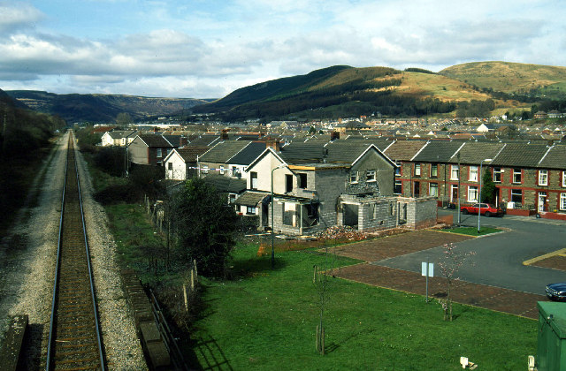 Treorchy. Looking up Rhondda Fawr. The Rhondda valleys were once best known for coal mining, but there are no collieries left there now.